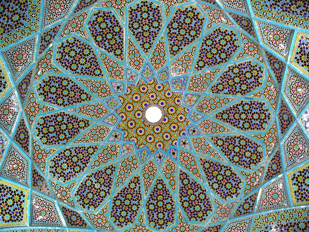 Fabric architectural design of Hafez tomb